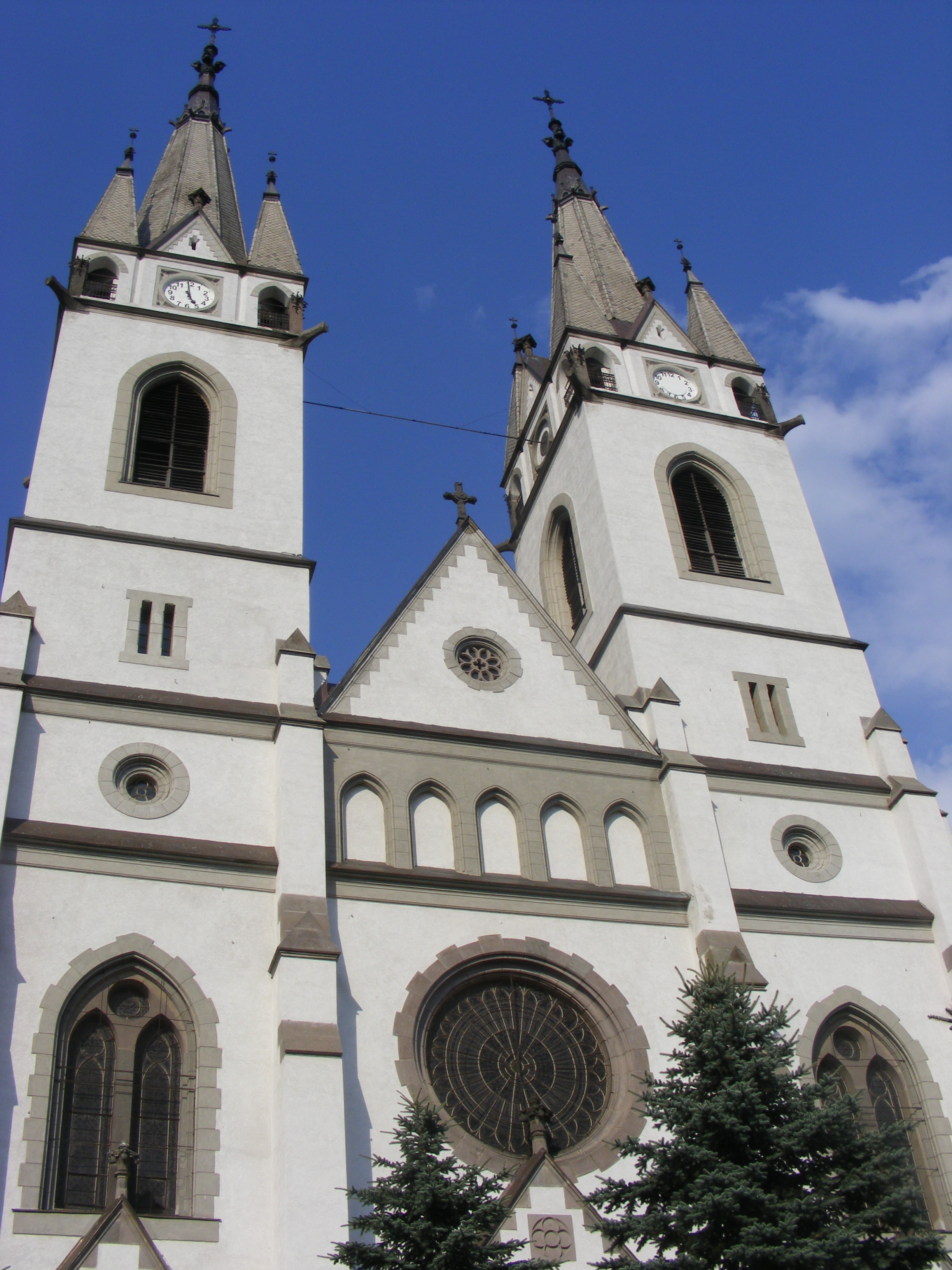 Romano-catholic church in Ditrău (Gyergyóditró), Romania, Harghita CountyRomână: Biserica romano-catolică în Ditrău (Gyergyóditró), Judeţul Harghita